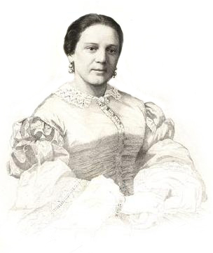 Emília das Neves, a Portuguese actress from the 1850's (engrav).